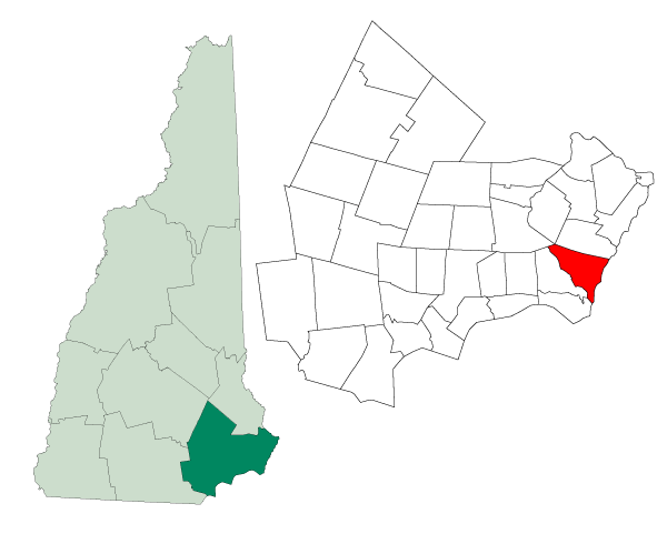 Map of a municipality in Rockingham County, New Hampshire